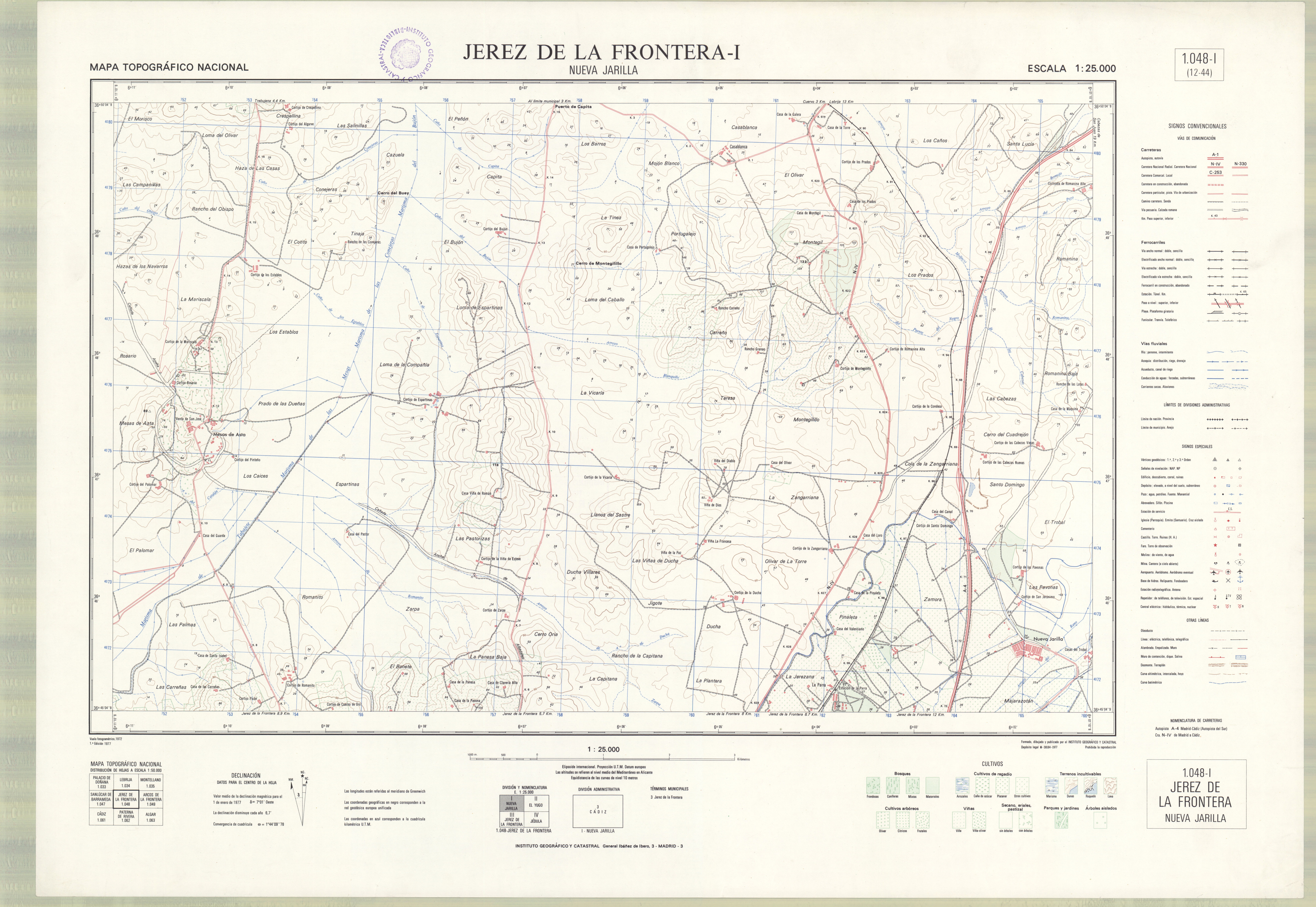 Fragment 1048c1 of the National Topographic Map of Spain in 1977 at a scale of 1:25000 printed and scanned with a resolution of 250 ppi. It shows Jerez de la Frontera-I (Nueva Jarilla).